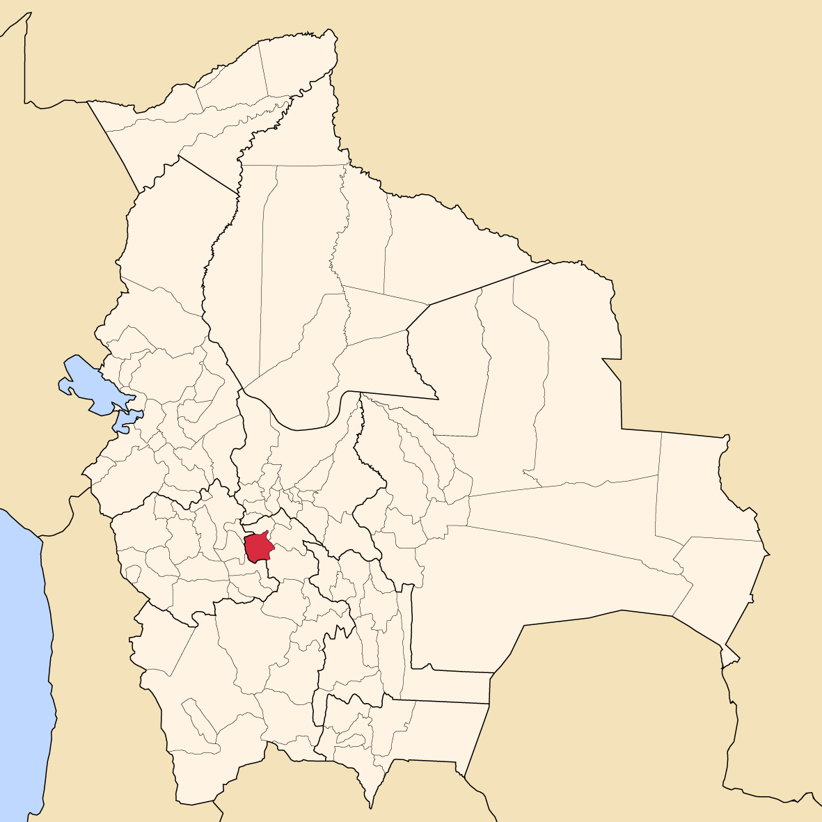 Map of Bolivia showing Rafael Bustillo province, Potosí